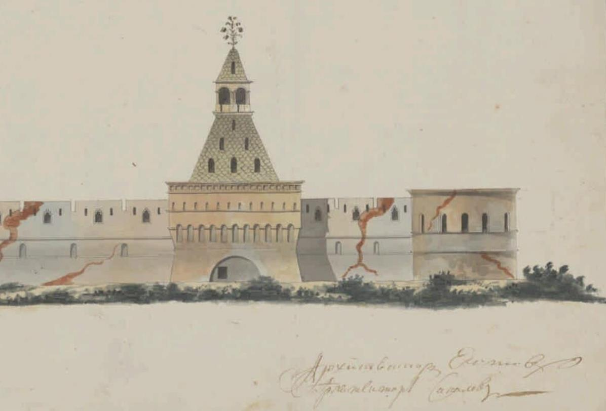 Vladimir (Nicholas) Gate and corner unnamed tower of Kitai-gorod. Moscow.